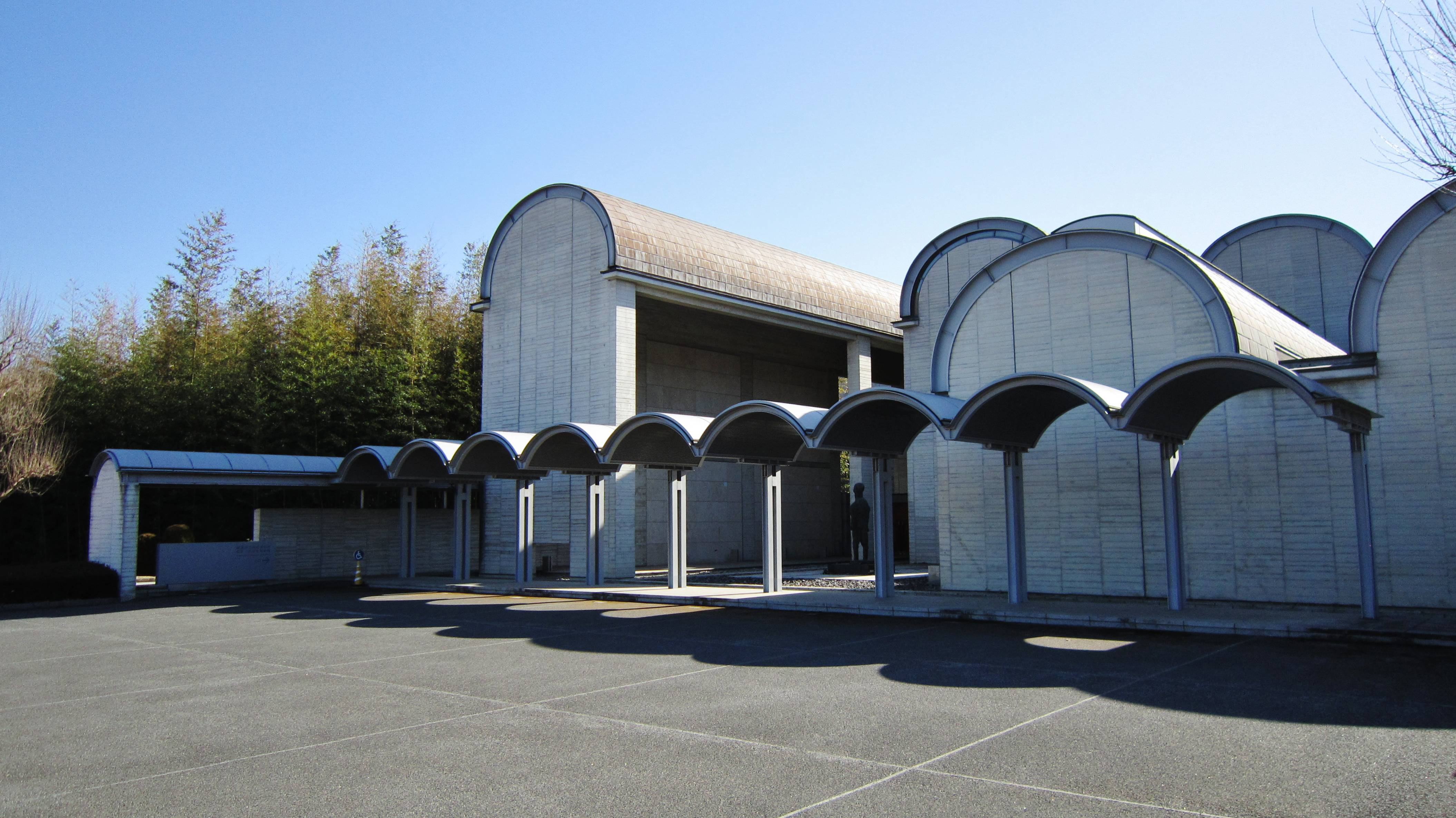 Tomioka Art Museum / Ichiro Fukuzawa Museum.